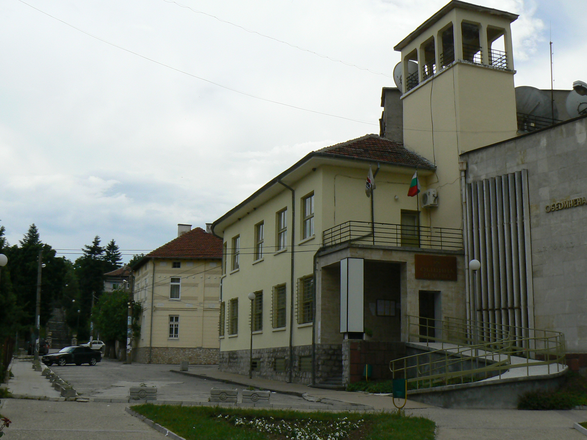 The building of Belovo Municipality in the centre of town Belovo, Bulgaria